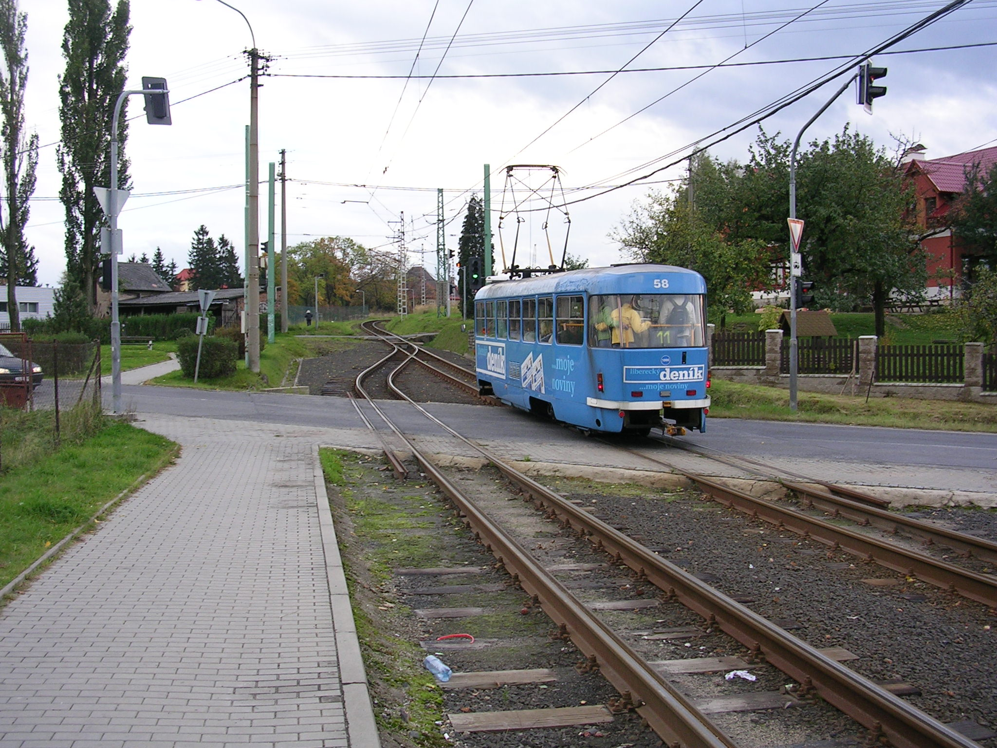 Tramway line between Liberec and Jablonec. Liberec, tram stop Nová Ruda.